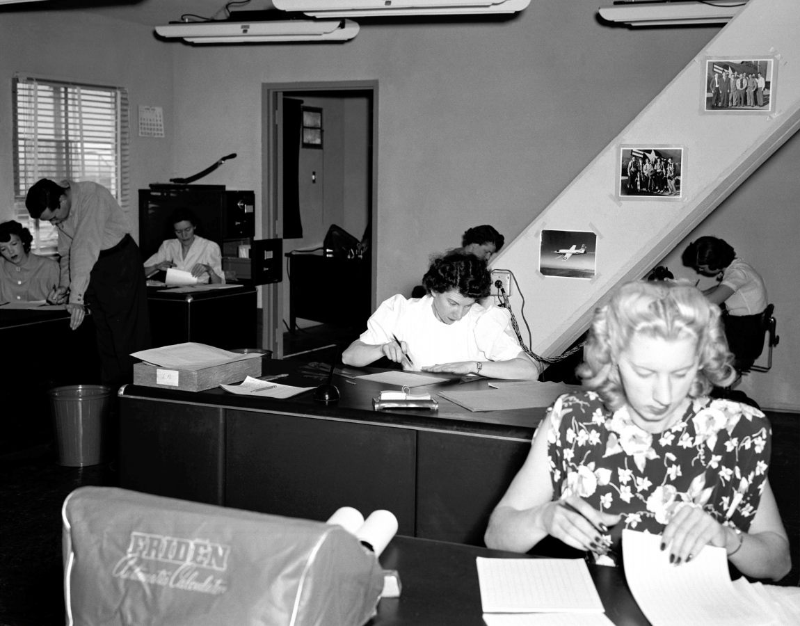 Human computers in the NACA High Speed Flight Station "Computer Room", Dryden Flight Research Center Facilities Original description: Early "computers" at work, summer 1949. In the terminology of that period, computers were employees--typically female--who performed the arduous task of transcribing raw data from rolls of celluloid film and strips of oscillograph paper and then, using slide rules and electric calculators, reducing it to standard engineering units. Note mechanical calculator with Friden cover at left. Seen here, left side, front to back, Mary (Tut) Hedgepeth, John Mayer and Emily Stephens. Right side, front to back, Lilly Ann Bajus, Roxanah Yancey, Gertrude (Trudy) Valentine (behind Roxanah), and Ilene Alexander.